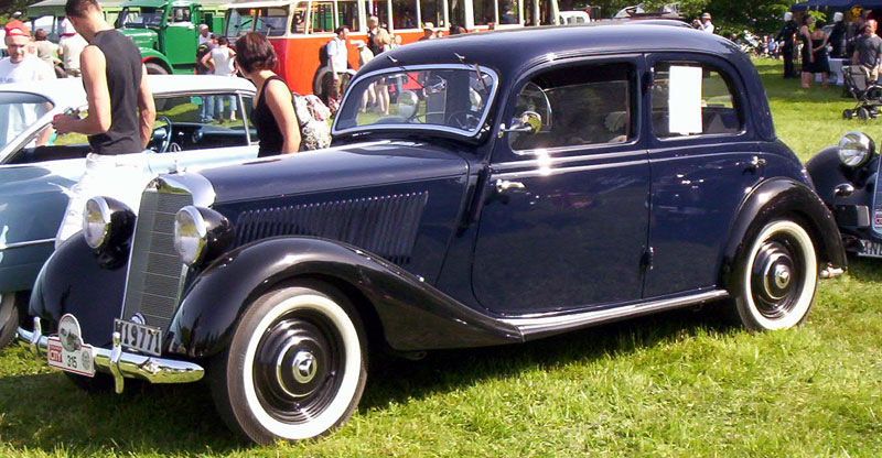 Mercedes-Benz 170V 1939